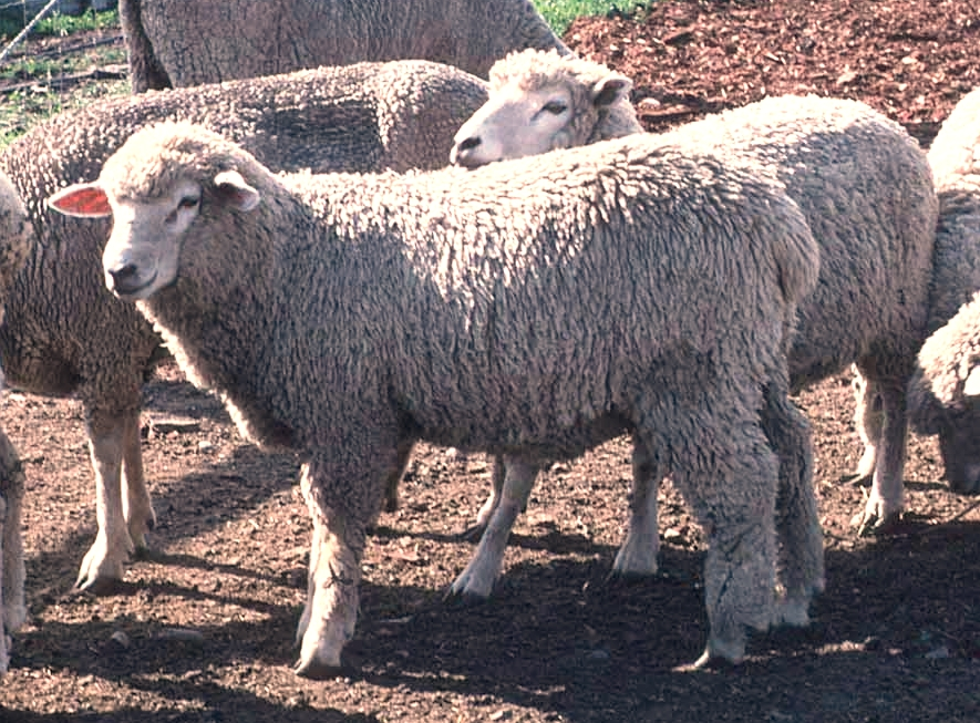 Corriedale sheep on a ranch in Charlo, Mission Valley, Montana